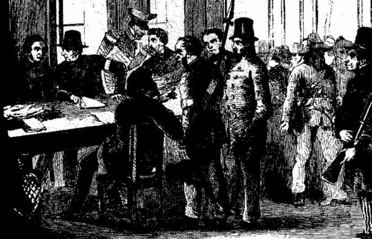 Provisional government in Dresden, Germany, 1849